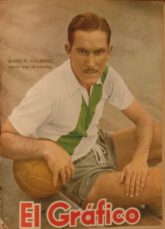 Argentine football player Eliseo Mouriño while playing for Banfield.